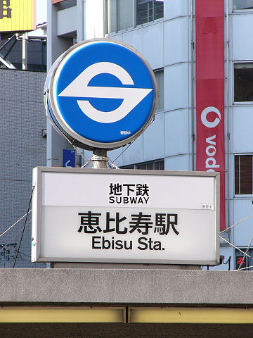 帝都高速度交通営団（営団地下鉄）入口の案内表示 撮影日：2004年 3月10日 撮影地：恵比寿駅（東京都渋谷区恵比寿南） 撮影者：cory 付記：東京地下鉄への掛替中、新ロゴ看板の上にシールを貼ってある状態。 Entrance sign of former Tokyo-Metro (Teito Rapid Transit Authority). Date: Mar 10, 2004 Place: Tokyo-Metro Ebisu station, Shibuya Tokyo Japan.